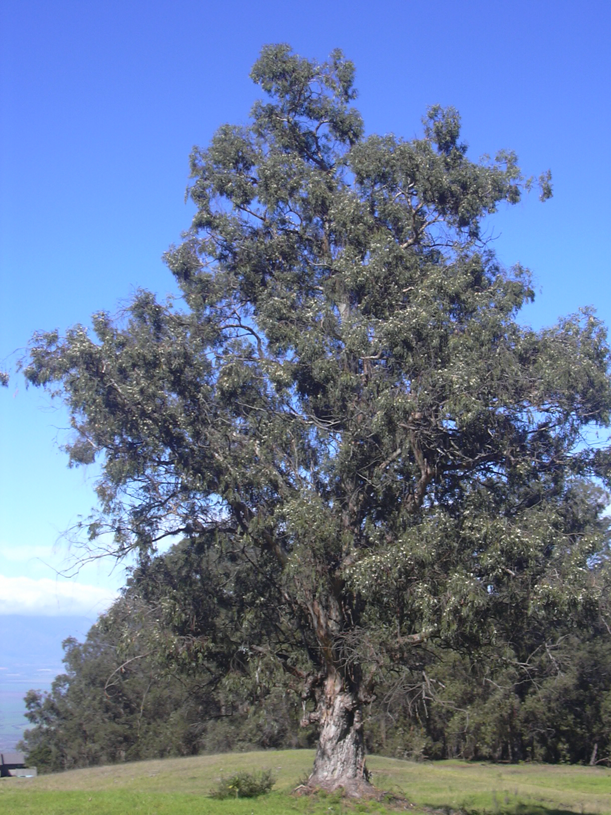 Eucalyptus globulus (habit). Location: Maui, Crater Road